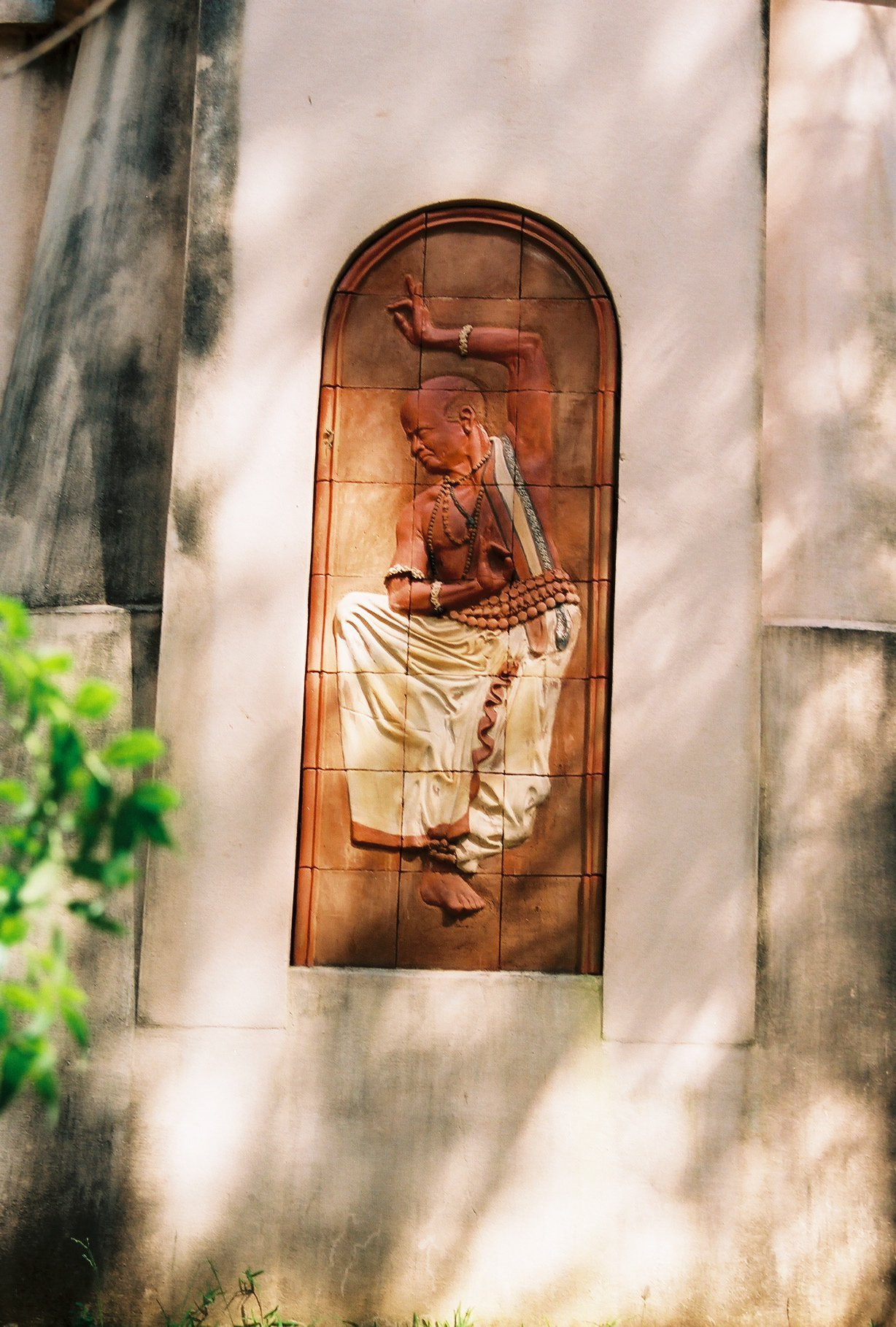 Closeup of the temple at Nrityagram, and a relief depicting Guru Kelucharan Mohapatra of Odissi.